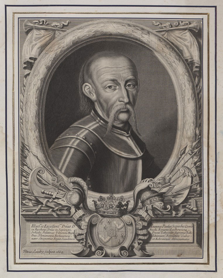 Portrait of Paweł Sapieha, Polish hetman /count/ (1609-1665). Copperplate from XVII century.